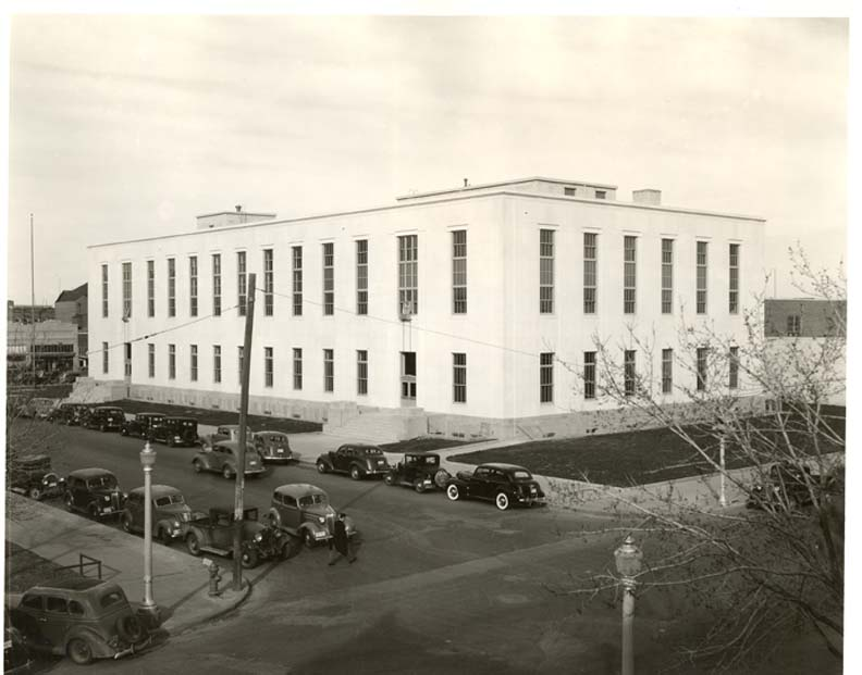 U.S. Post Office and Court House Completed in 1938. Architect: Wyatt C. Hedrick Still in use by the U.S. District Court for the Northern District of Texas. Renamed the J. Marvin Jones Federal Building in 1980.